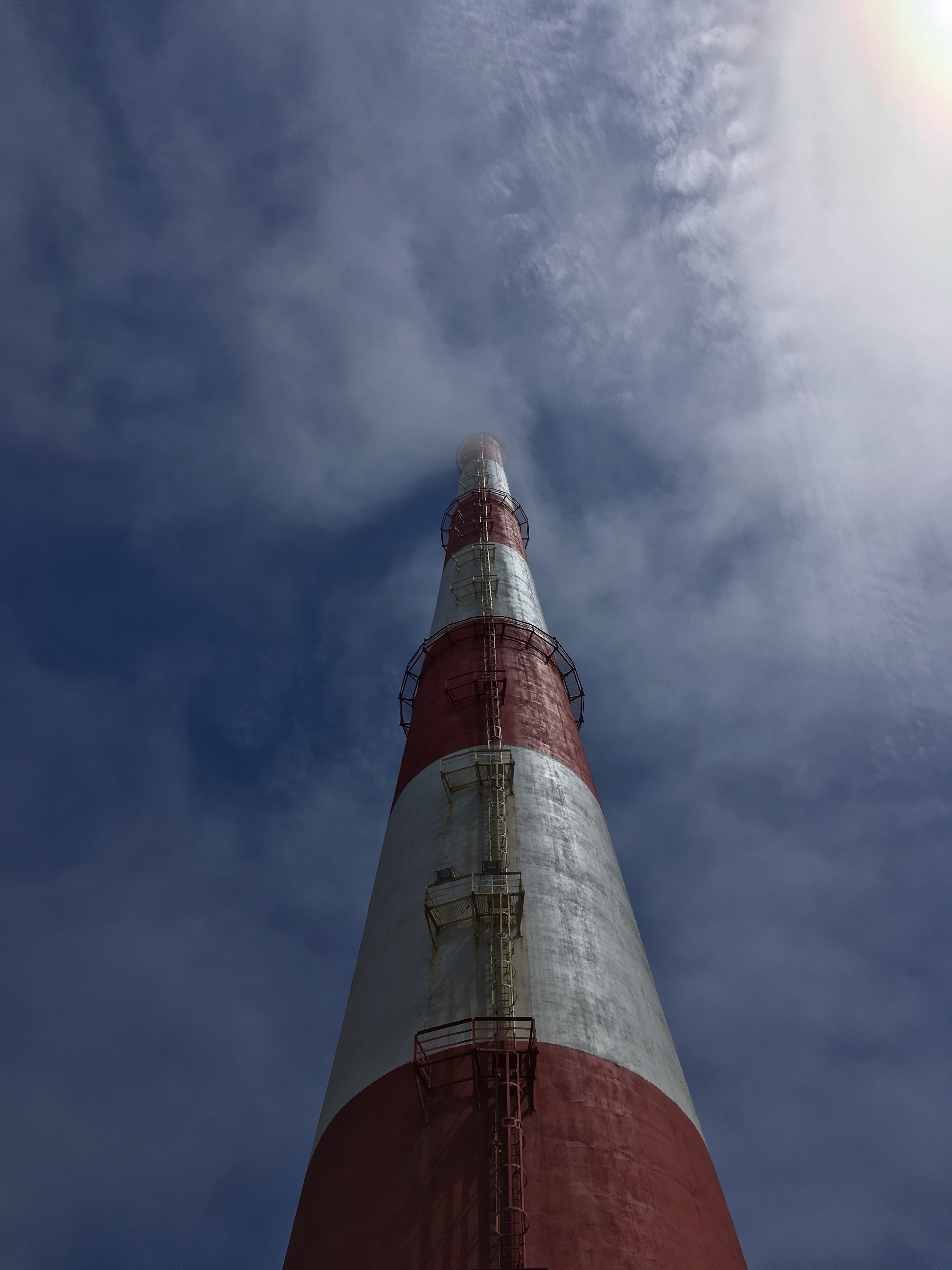 Cooling tower